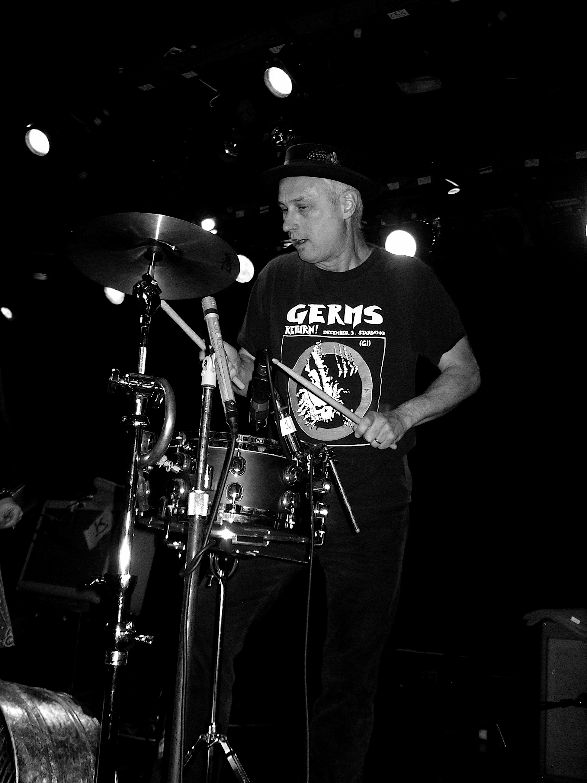 The Knitters, Boston May 03, 2007